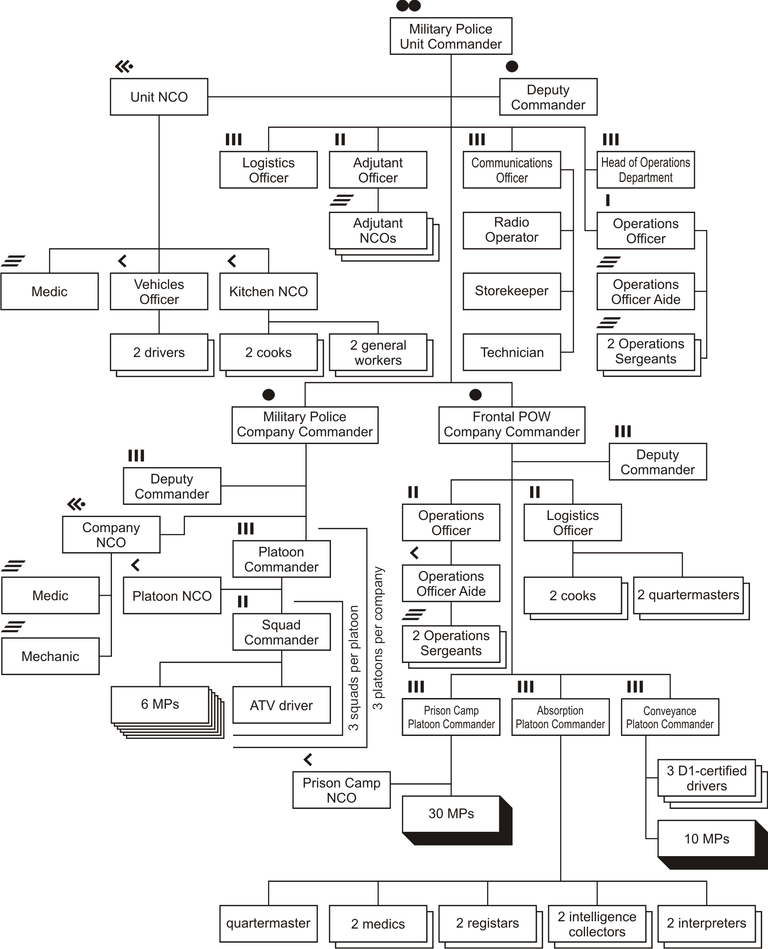 Structure of the military police unit (battalion-level) in the IDF during wartime.